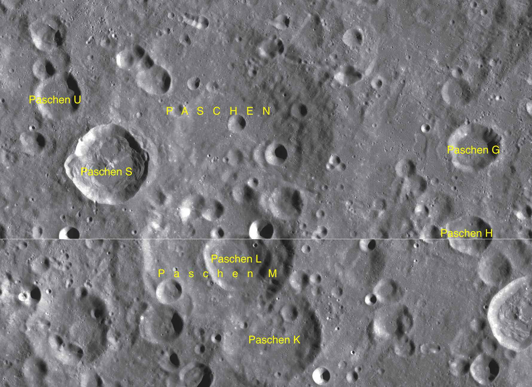 Parts of the charts LAC-88, LAC-106 used for the presentation.